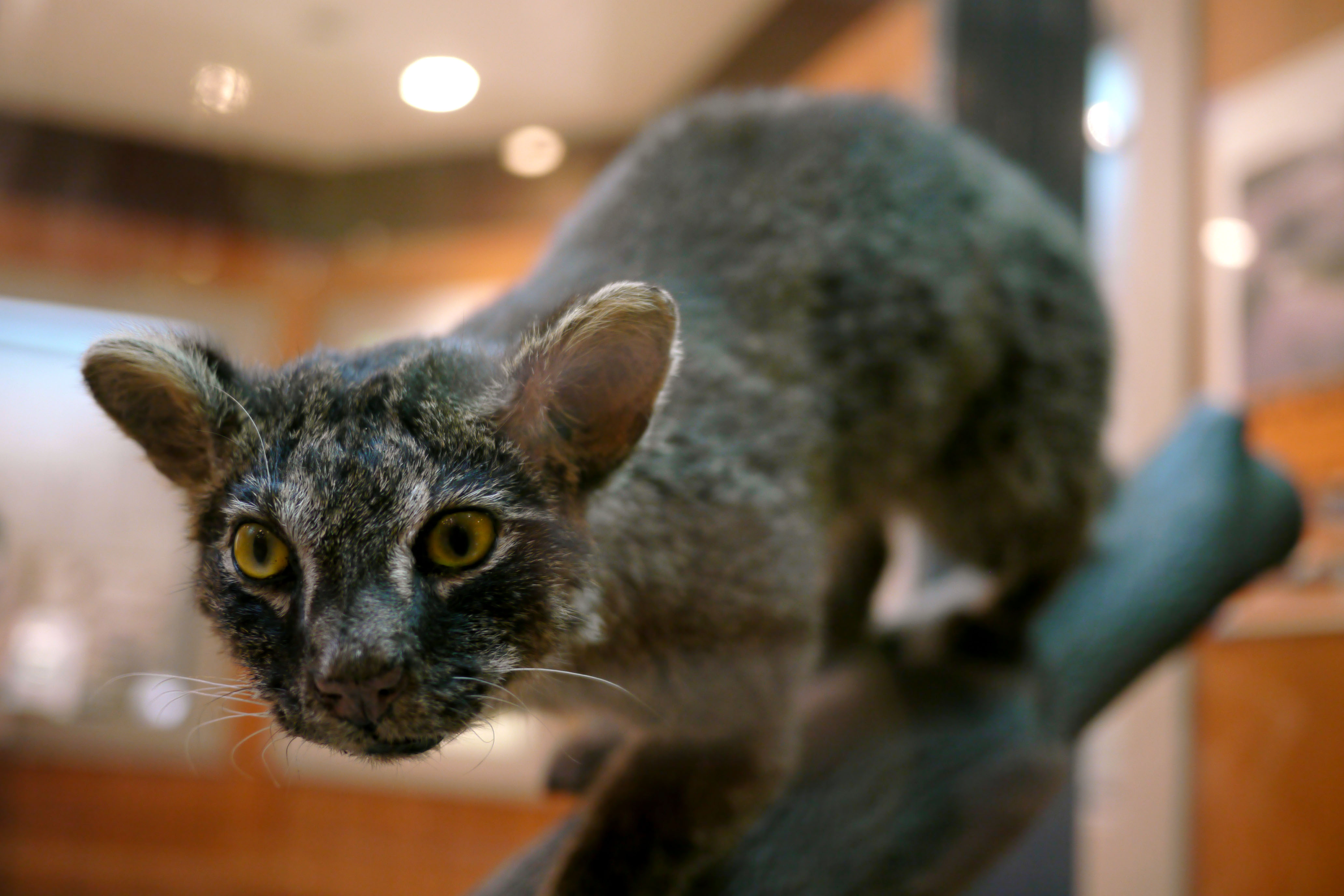 "Yon", an Iriomote cat that was rehabilitated at the Iriomote Wildlife Conservation Center. He was taxidermied after he died.